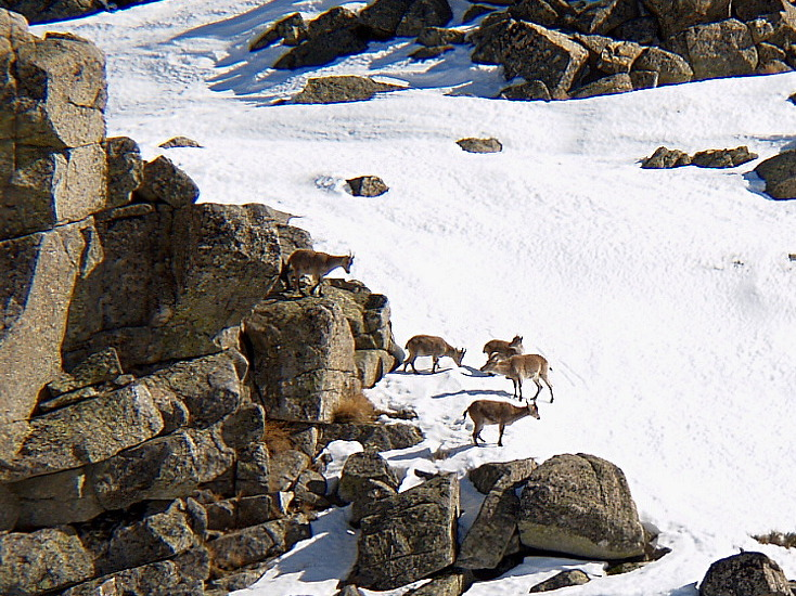 Iberian ibex (Capra pyrenaica victoriae) from Gredos.